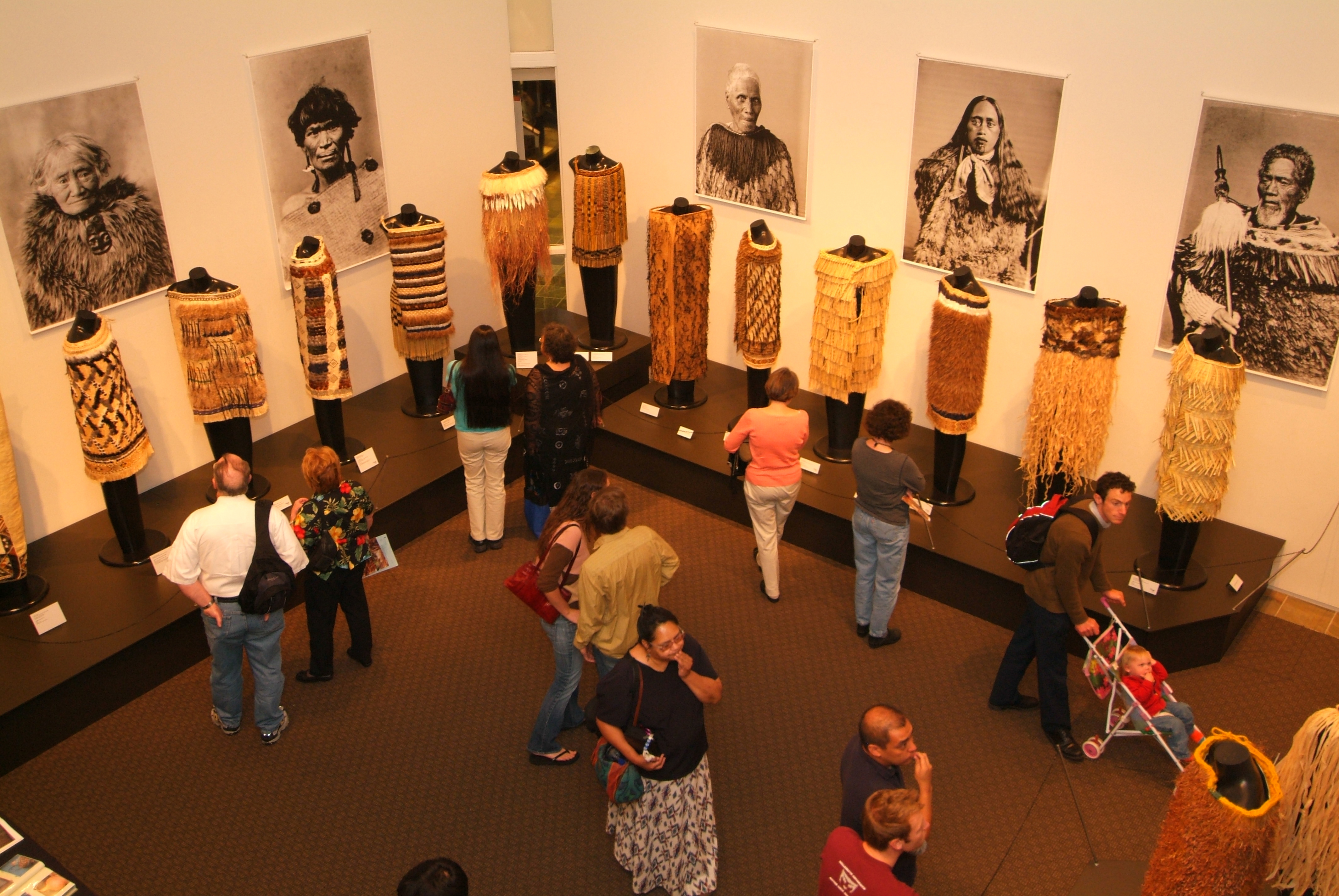 picture of the Toi Maori exhibit; Hallie Ford Museum of Art